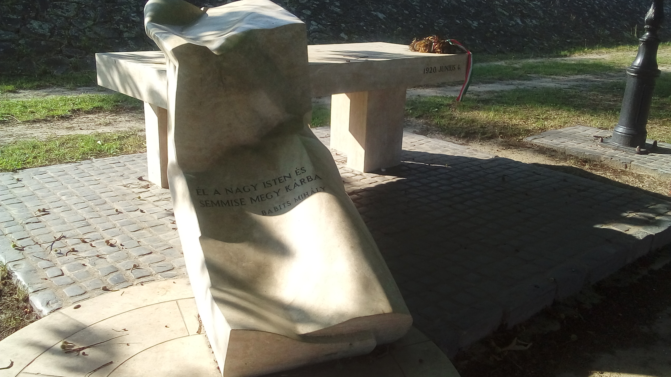 Trianon Memorial in Paks, Hungary, built in 2014